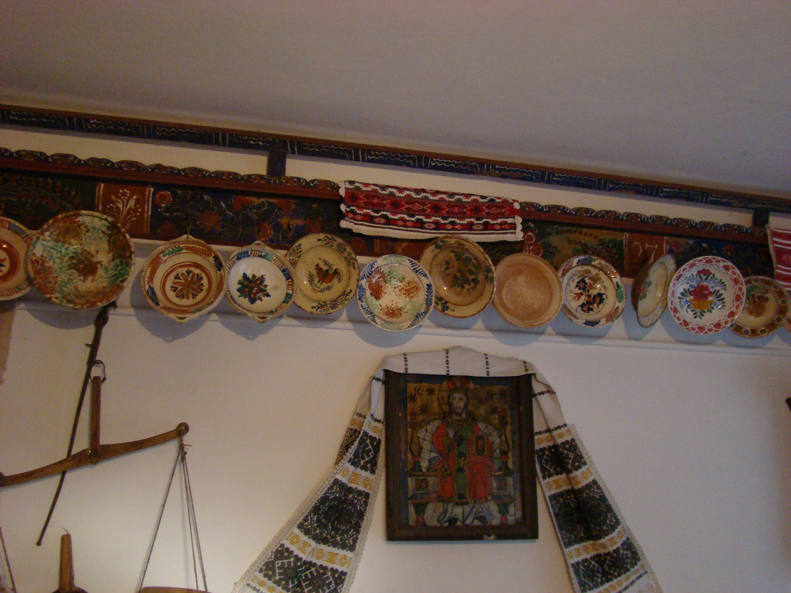 Săsăuș, Sibiu county, Romania